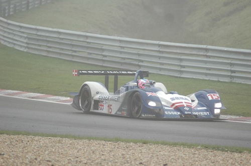 A Zytek 04S at the 2005 1000km of Spa